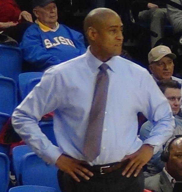 Fresno State men's basketball head coach Rodney Terry during Fresno State's game against San Jose State on Jan. 7, 2017 at the Event Center in San Jose, Calif.